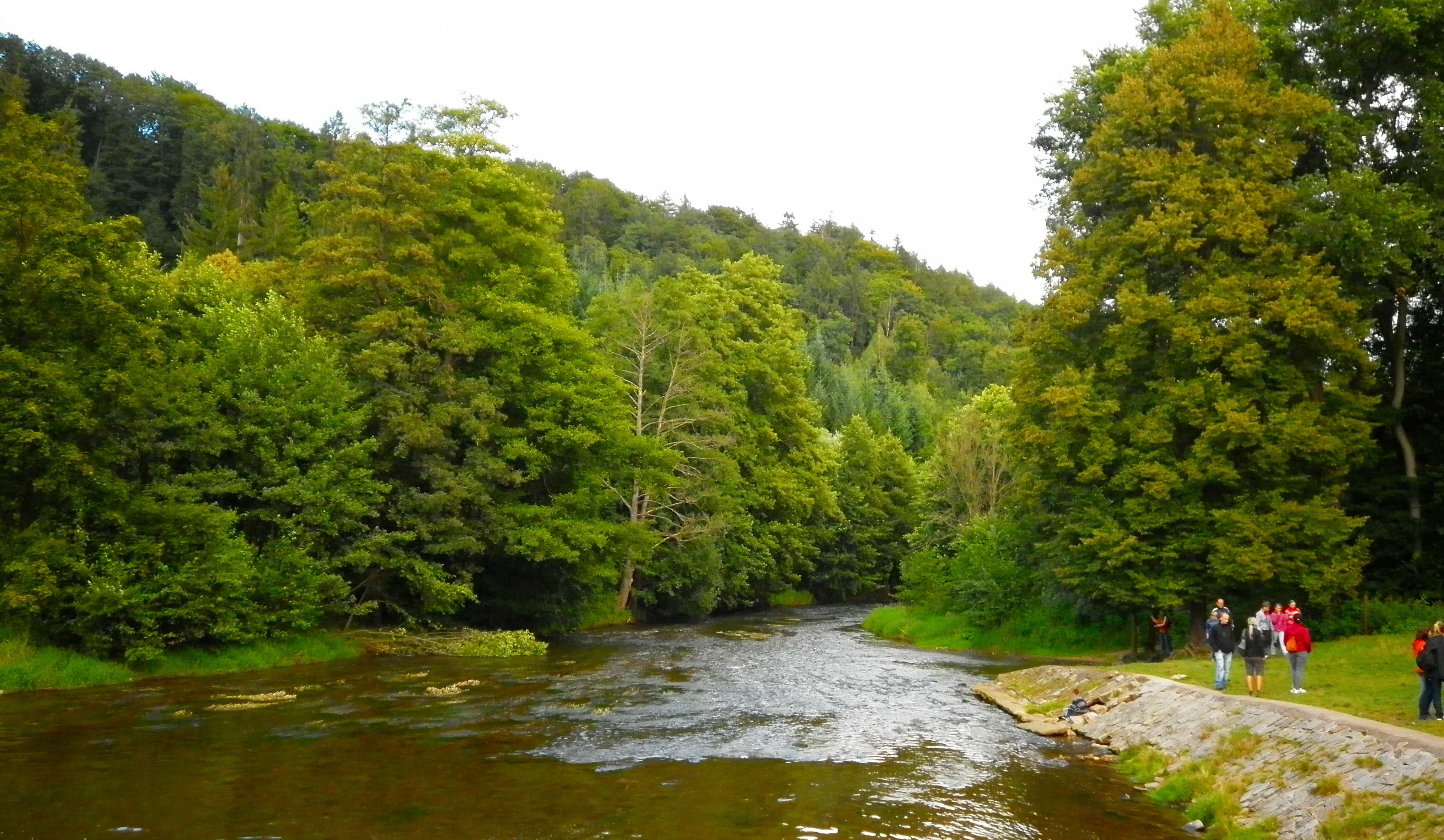 National natural monument "Babiččino údolí" in Náchod District, Czech Republic